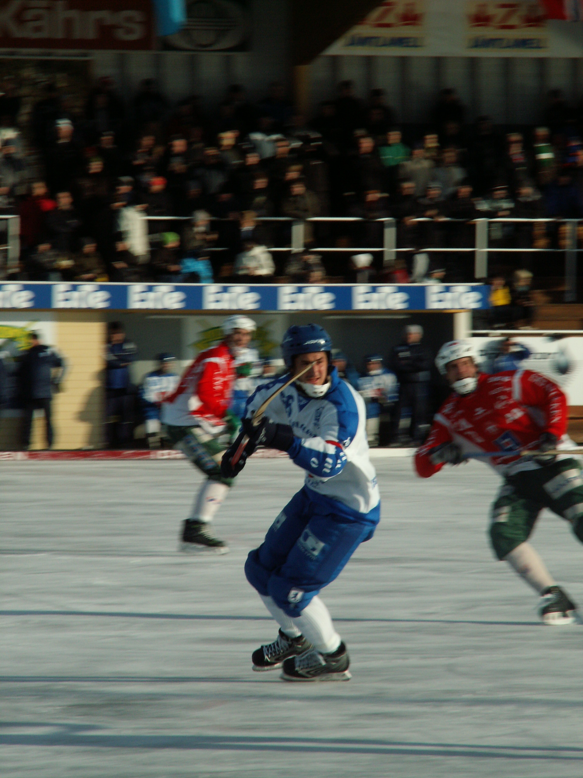 The bandy player Mischa Svesjnikov during Bandy world cup 2007.